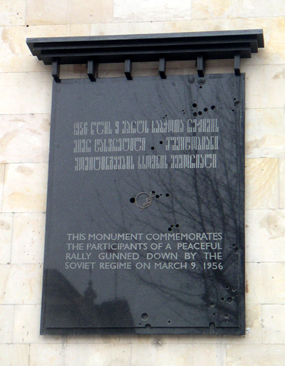 Plaque in memory of those shot at rally in Tbilisi in 1956 in Rustavelis Gamziri. I (Smerus) took this photo. Georgian text: 1956 წლის 9 მარტს საბჭოთა რეჟიმის მიერ დახვრუტილი მშვიდობიანი მომიტინგეების ხსოვნის მემორიალი English text: This monument commemorates the participants of a peaceful rally gunned down by the Soviet regime on March 9, 1956